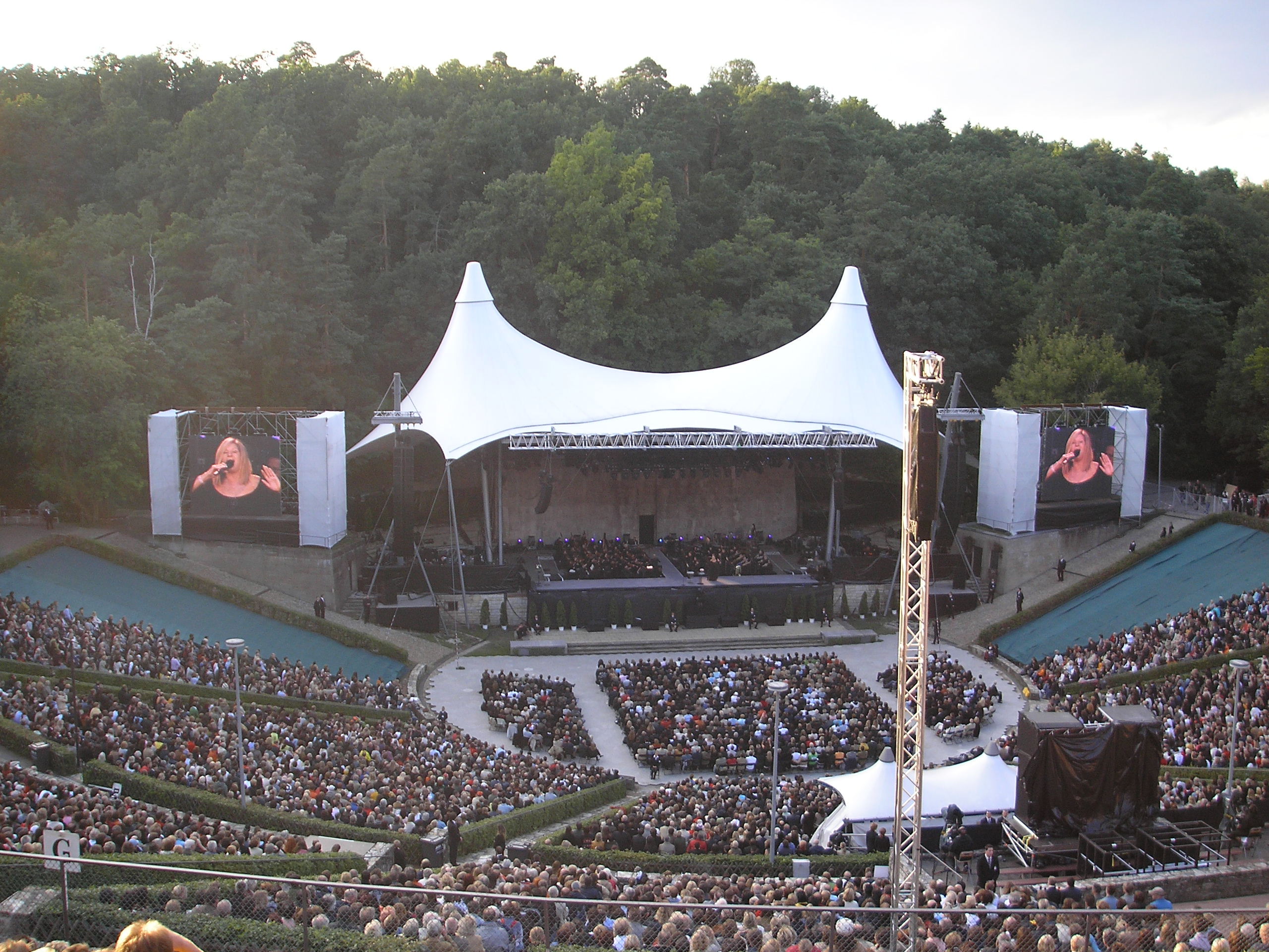 The Waldbühne in Berlin, during the 2007 summer concert of Barbra Streisand.